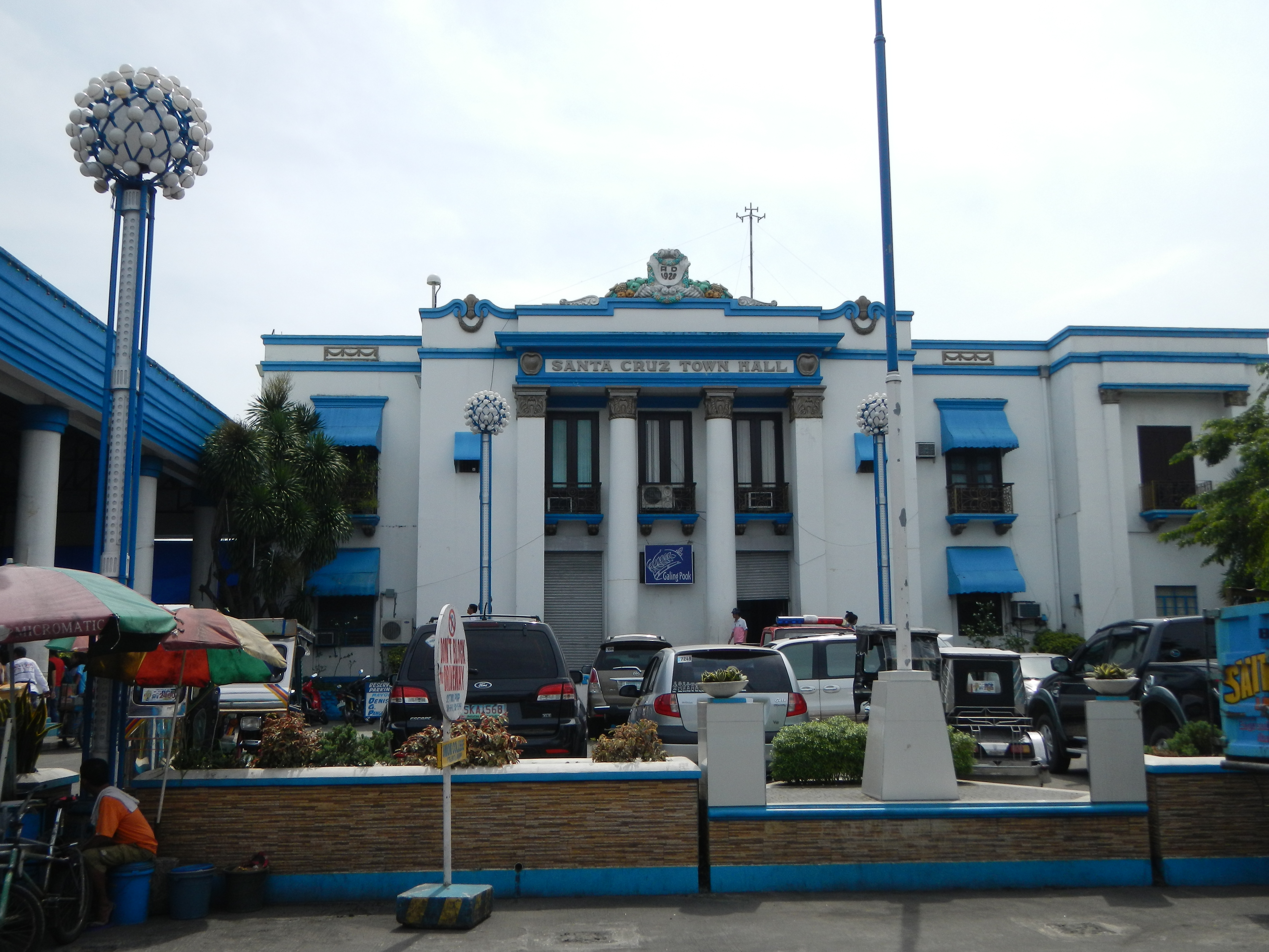 Santa Cruz Municipal Hall[1] Coordinates: 14°16'53"N 121°24'52"E & Santa Cruz Plaza, Gymnasium, Rizal Monument, Battle of Santa Cruz, Downtown, Centro and Commercial center - -- Santa Cruz, Laguna[2] (a first class urban municipality in the province of Laguna,[3]Philippines, the capital town of the province of Laguna, latest census, it has a population of 101,914 people in 19,627 households, situated on the banks of the Santa Cruz River[4] which flows into the eastern part of Laguna de Bay[5] politically subdivided into 26 barangays.Website [6] Coordinates: 14°15'8"N 121°24'15"E)